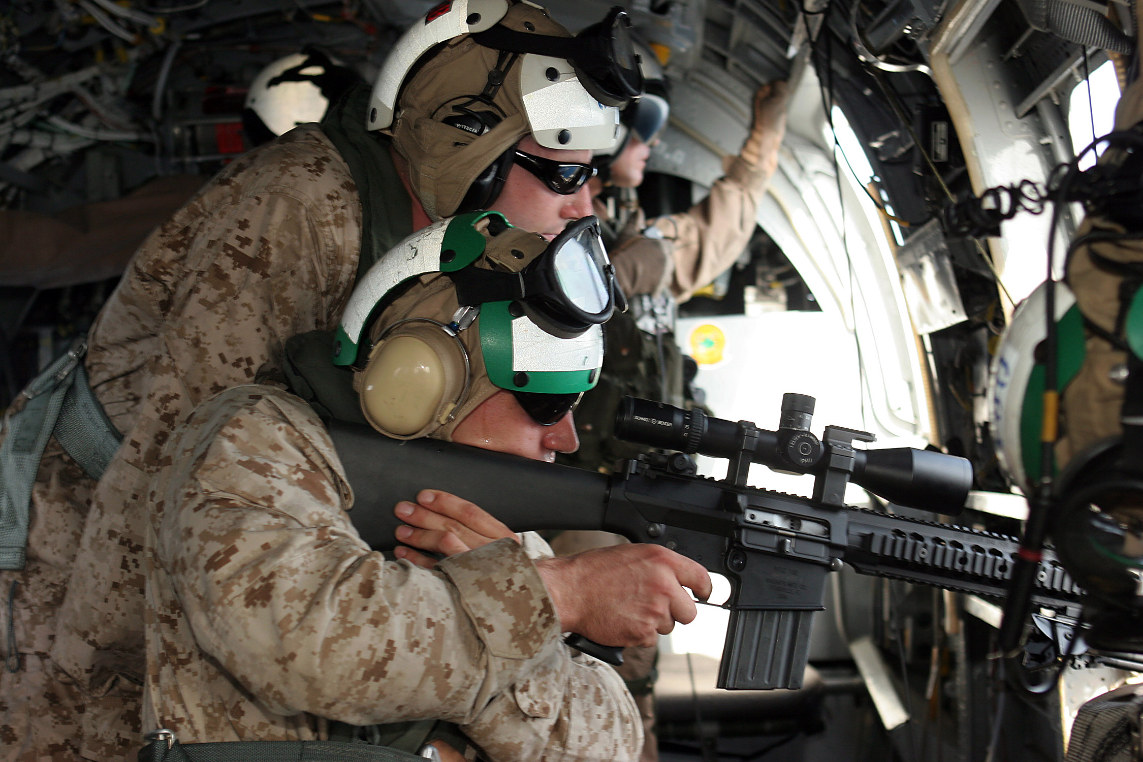 GULF OF ADEN (Sept. 27, 2008) Lance Cpl. Marco S. Buehler, a scout sniper assigned to Battalion Landing Team 2/6 of the 26th Marine Expeditionary Unit (MEU), fires his MK-11 sniper rifle from a CH-46 Sea Knight helicopter while flying over the Gulf of Aden. The snipers train by firing at floating targets from different places inside the helicopter. The 26th MEU is part of the Iwo Jima Expeditionary Strike Group and is deployed in the U.S. 5th Fleet area of responsibility. (U.S. Marine Corps photo by Cpl. Aaron J. Rock/Released)